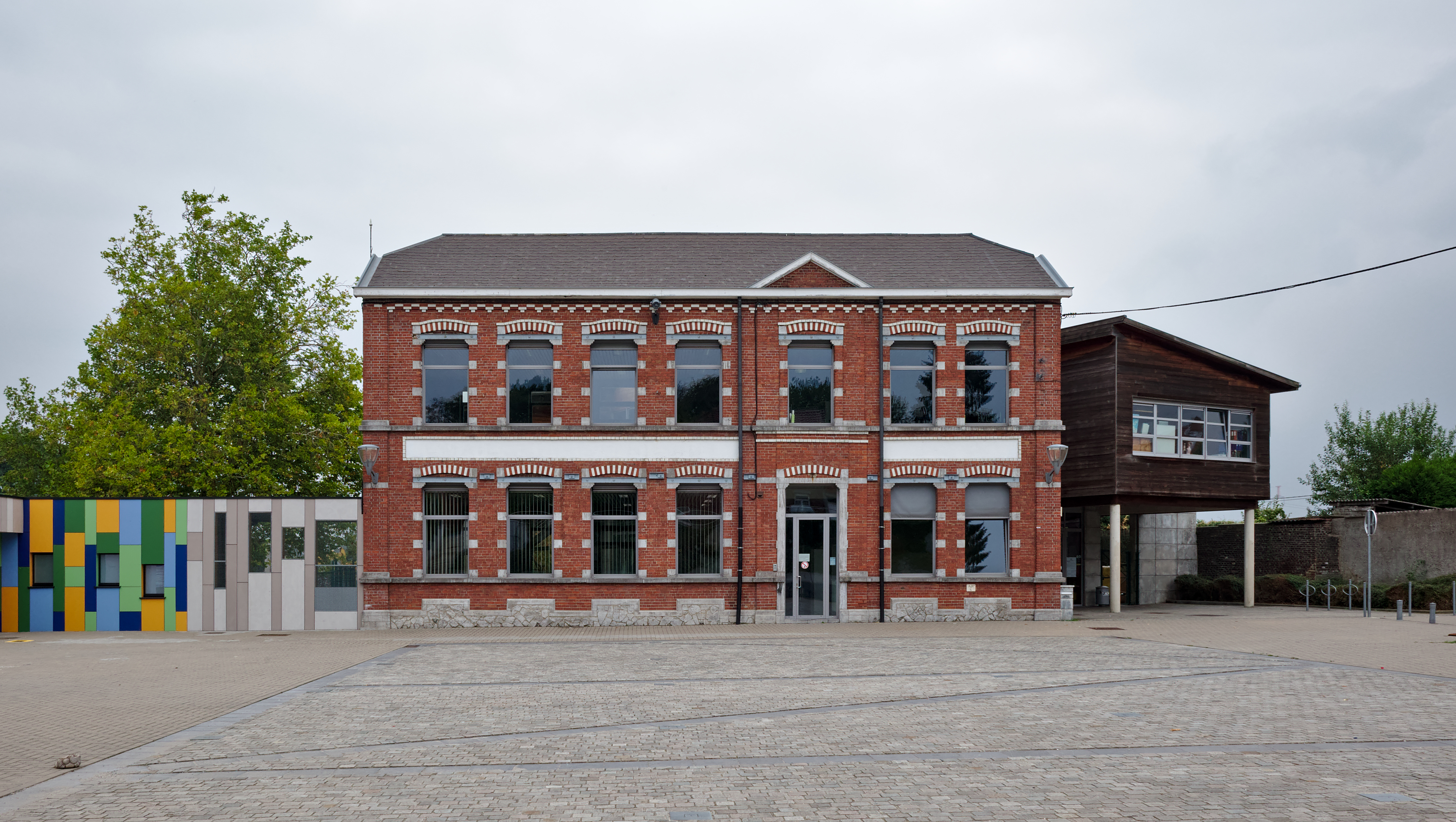 Primary school in Viesville (Ponts-à-Celles, Belgium)